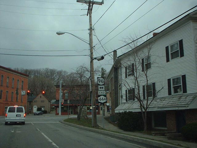 Northern terminus of New York State Route 444 at New York State Route 96 in Victor.